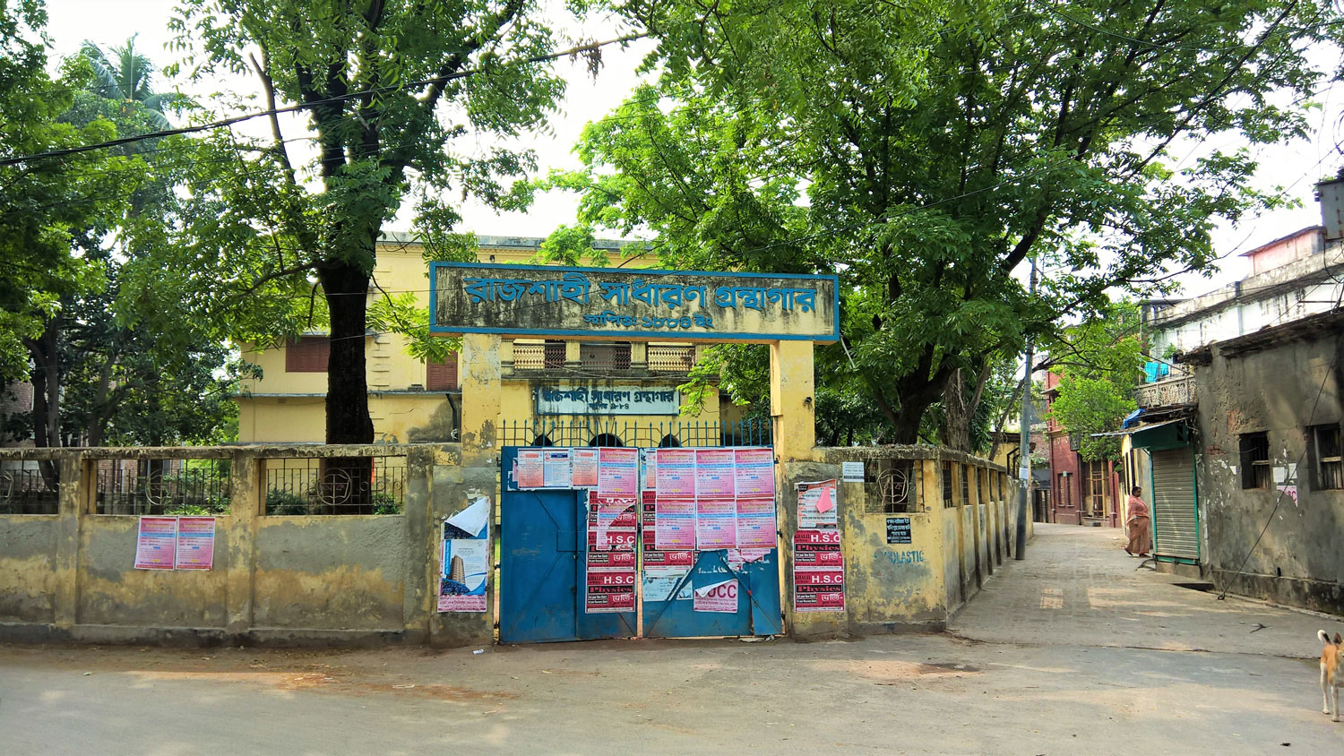 One of the oldest library in Rajshahi. That was formarly known as Rajshahi Sadharon Pustakaloy. In 1975 it has been changed to Rajshahi General Library.